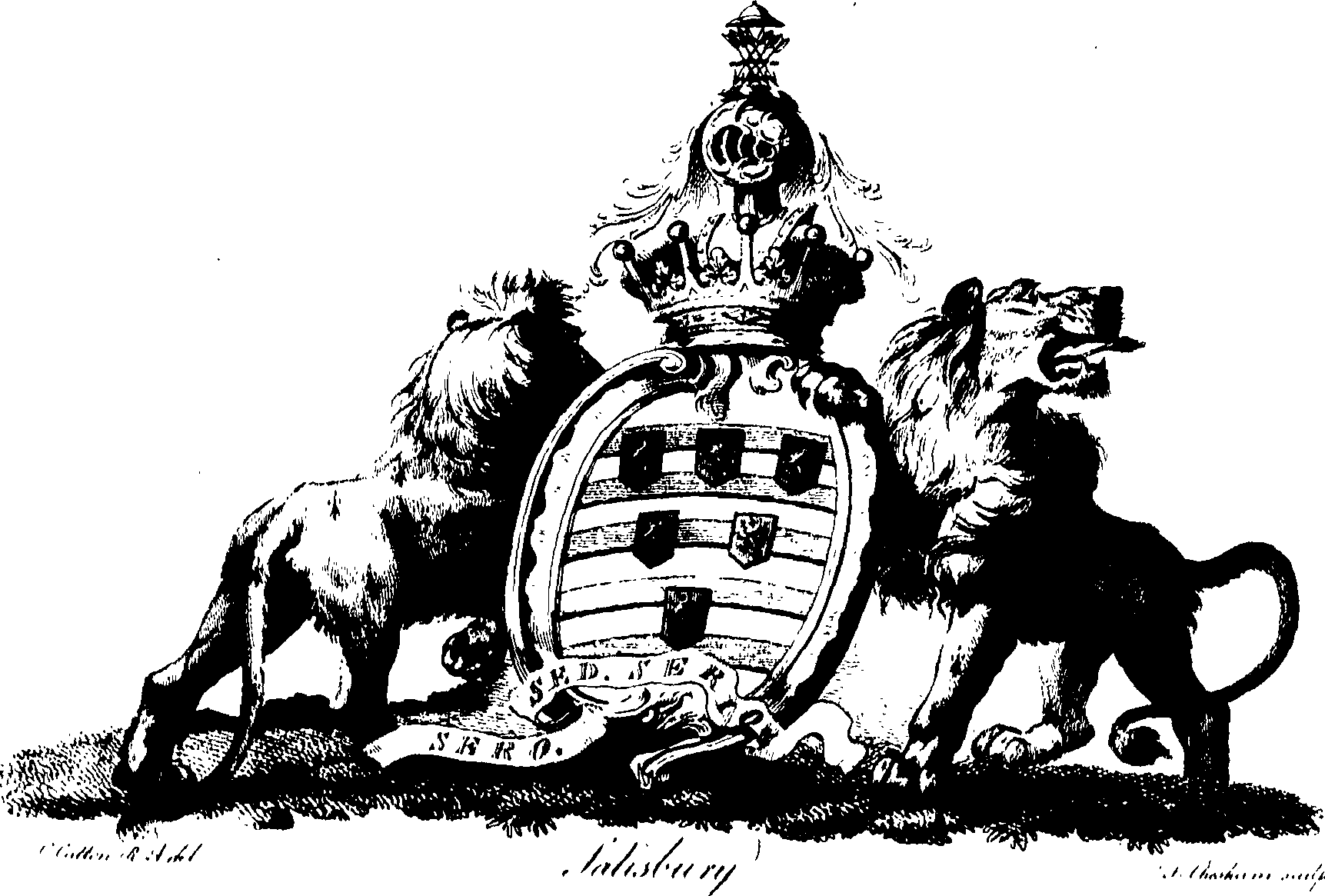 Fleuron from book: The English peerage; or, a view of the ancient and present state of the English nobility: to which is subjoined, a chronological account of such titles as have become extinct, ... In three volumes. ...